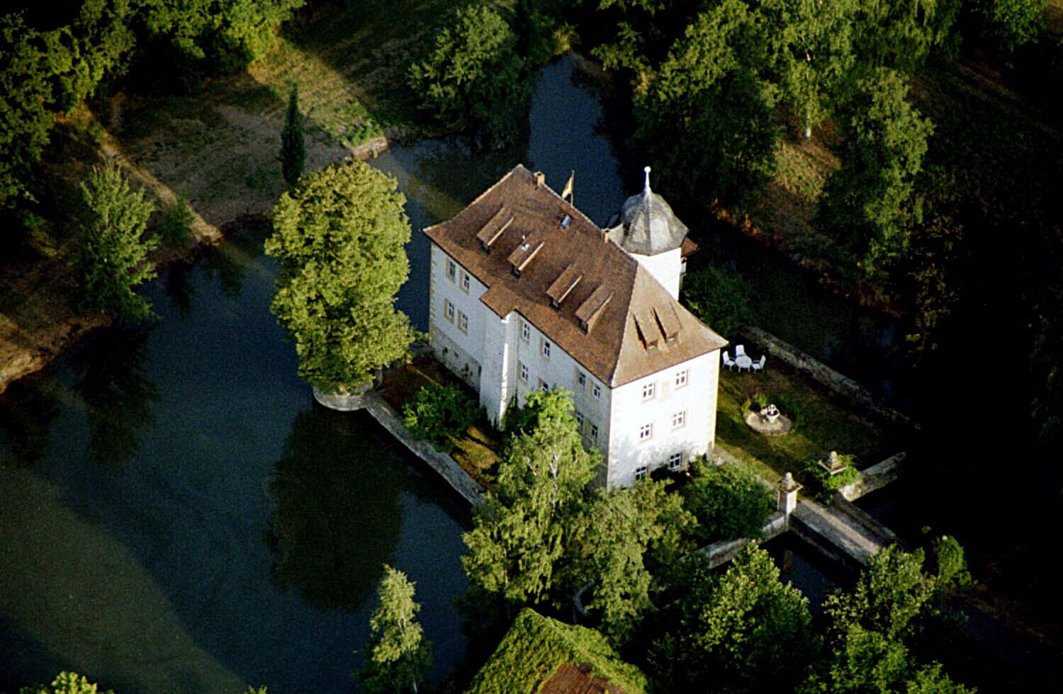 Kleinbardorf from a ballon